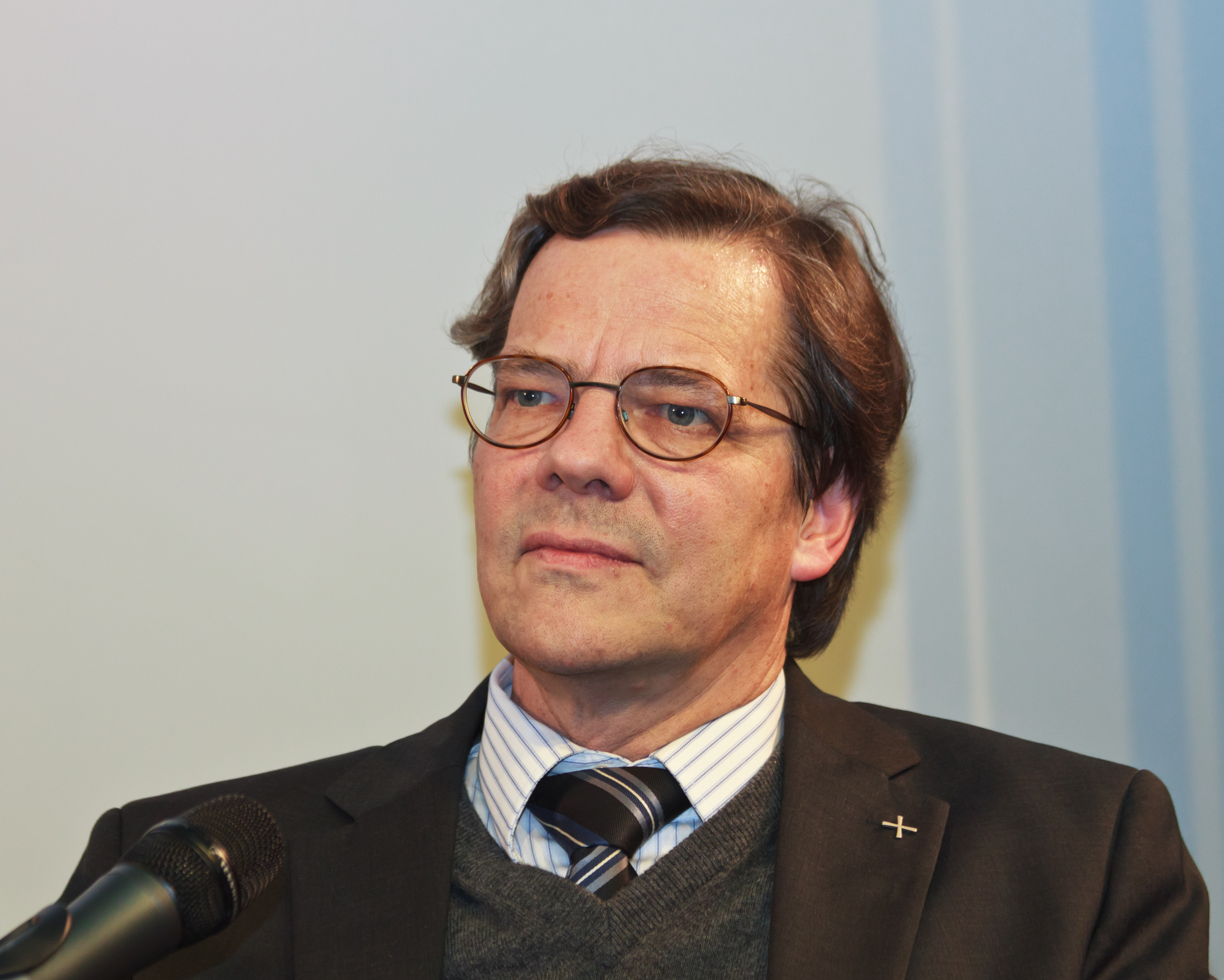 Markus Dröge, Evangelical bishop from Germany